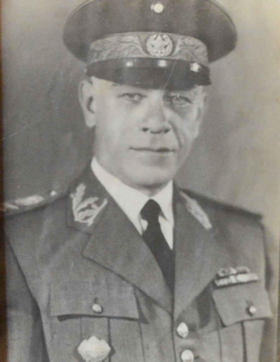 Marshal Milton de Freitas Almeida, Brazilian Army.